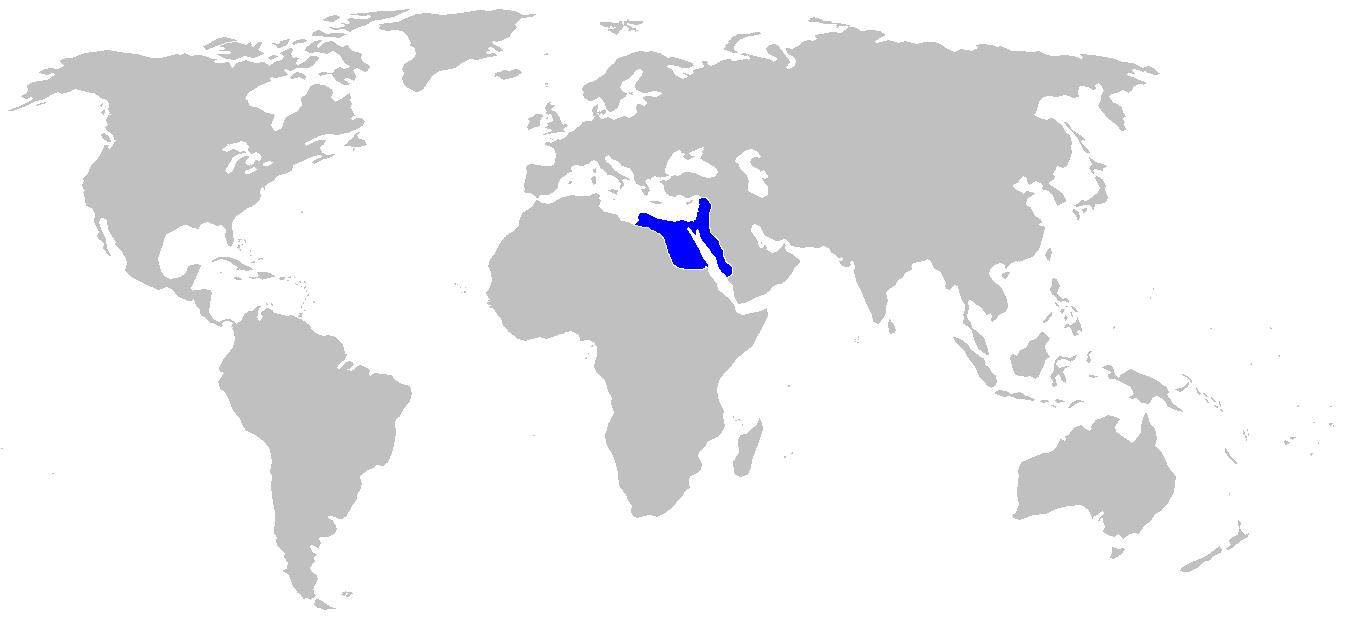 Map of the Mamluk Egyptian Mameluke Sultanate of Northern Africa and Western Asia.